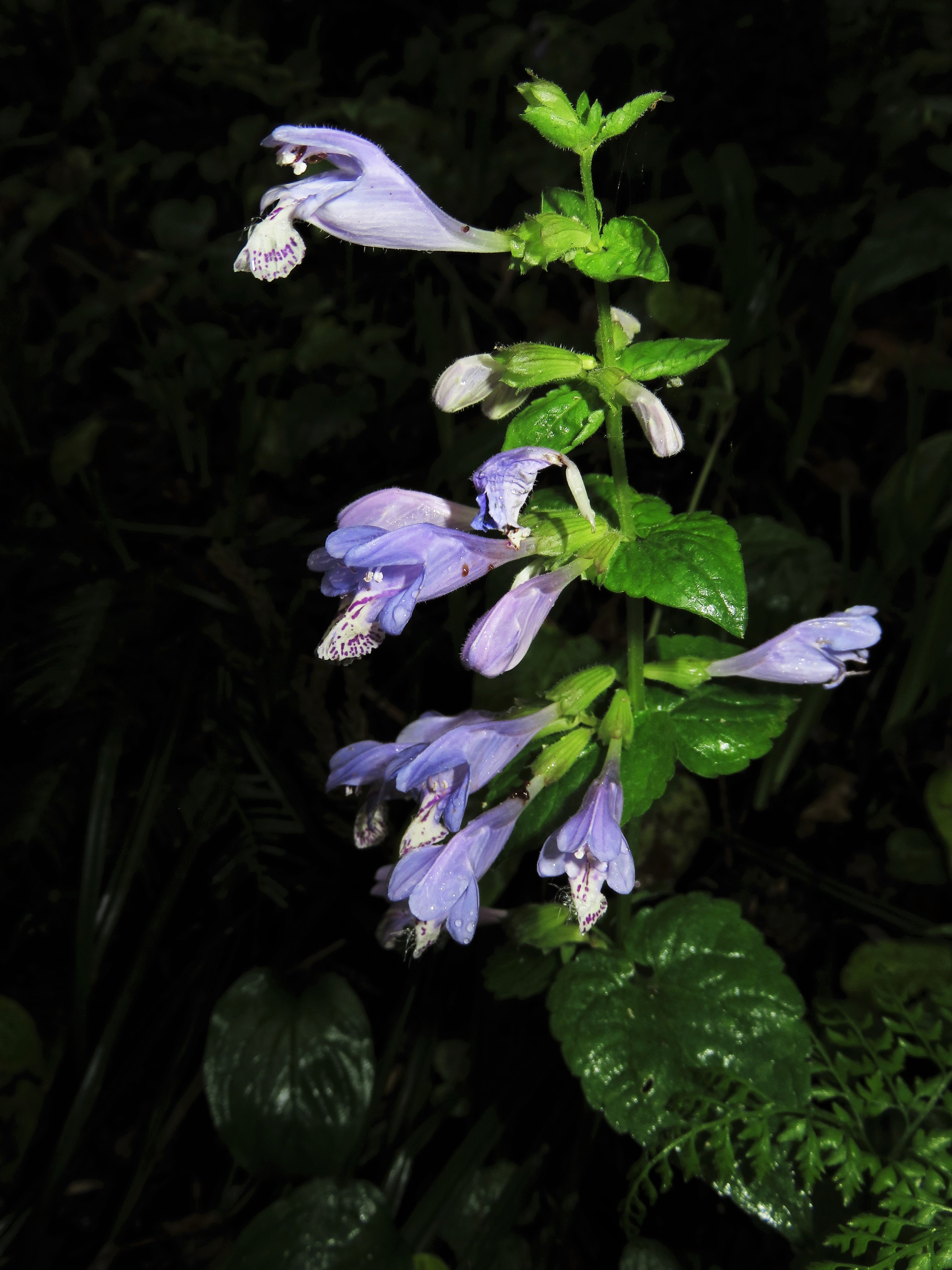 Meehania urticifolia, Aizu area, Fukushima pref., Japan